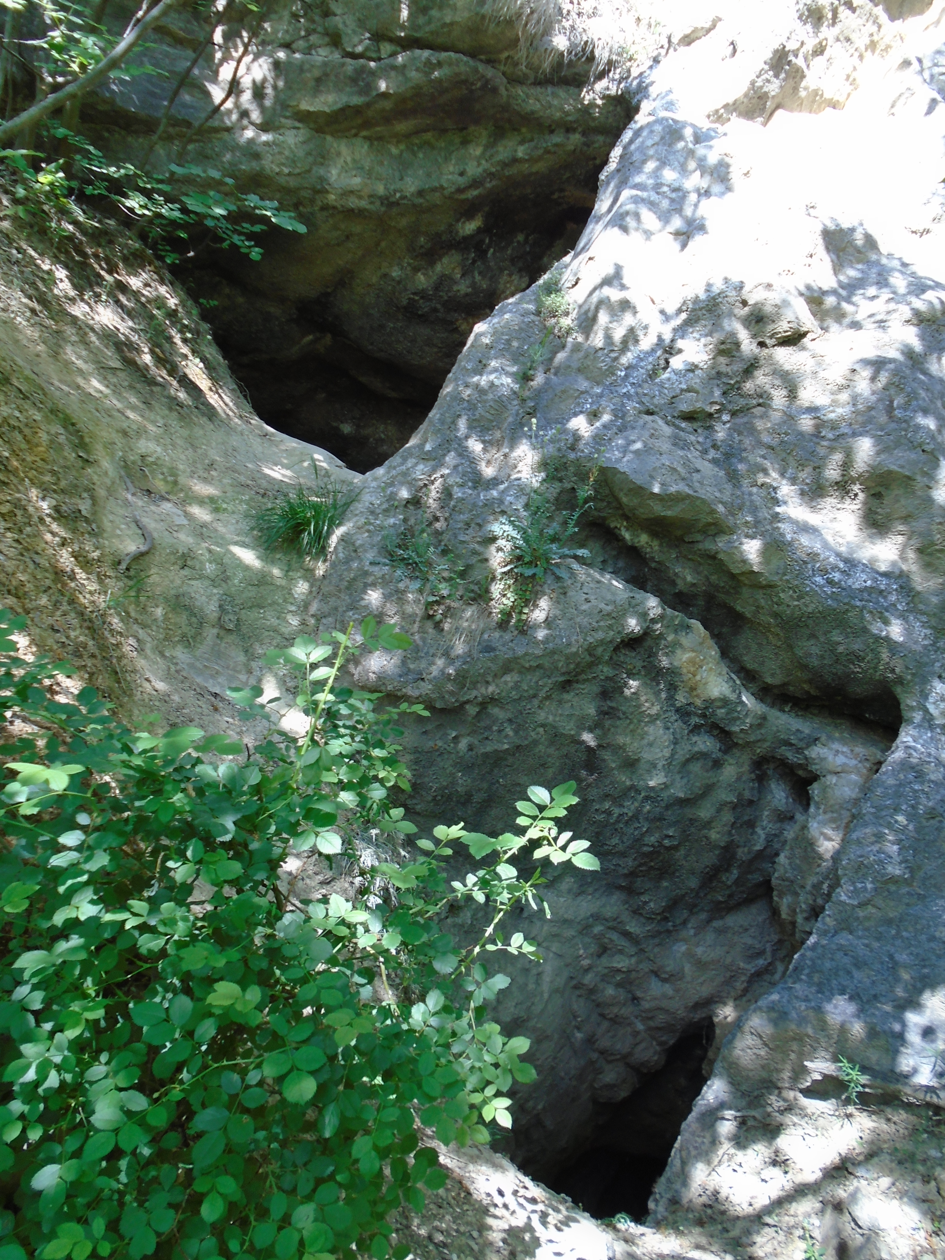 Barit Cave main entrance and lower entrance.